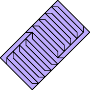 A polyabolo of which 20 copies are needed to form a rectangle.